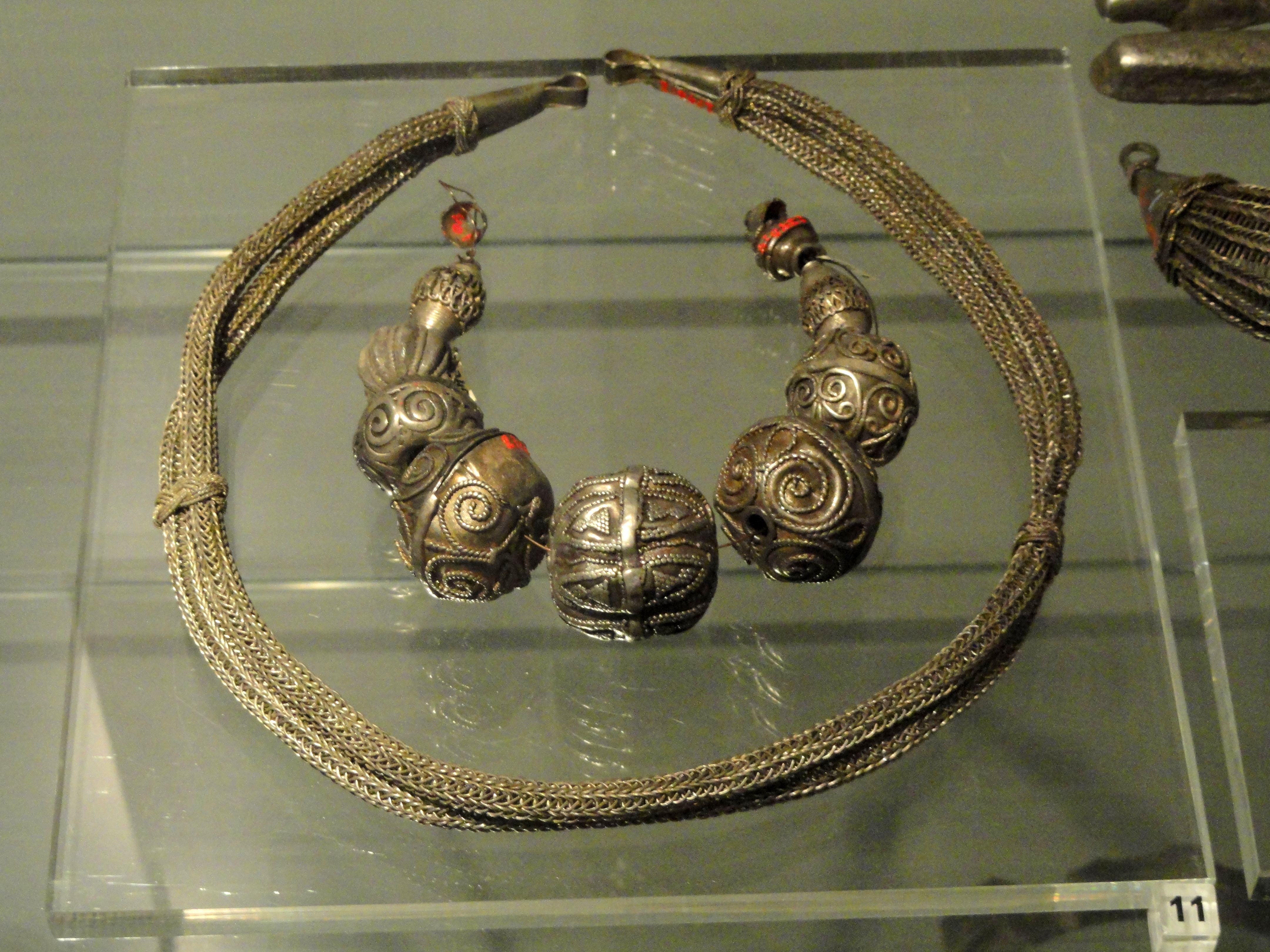 Exhibit in the Archaeological collections, National Museum of Finland, Helsinki, Finland.